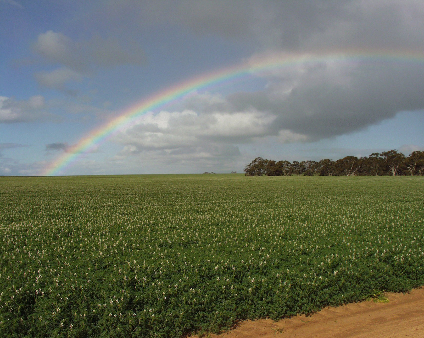 Rainbow over a field of Lupins, Jennacubbine , Western Australia. Photo credit: Rick Horbury